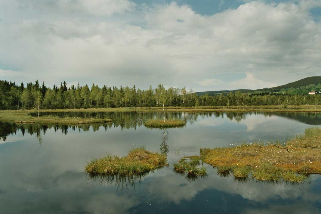 typical photo of "Chalupská slať" (deutsch: Großer Königsfilz) with trees on an island